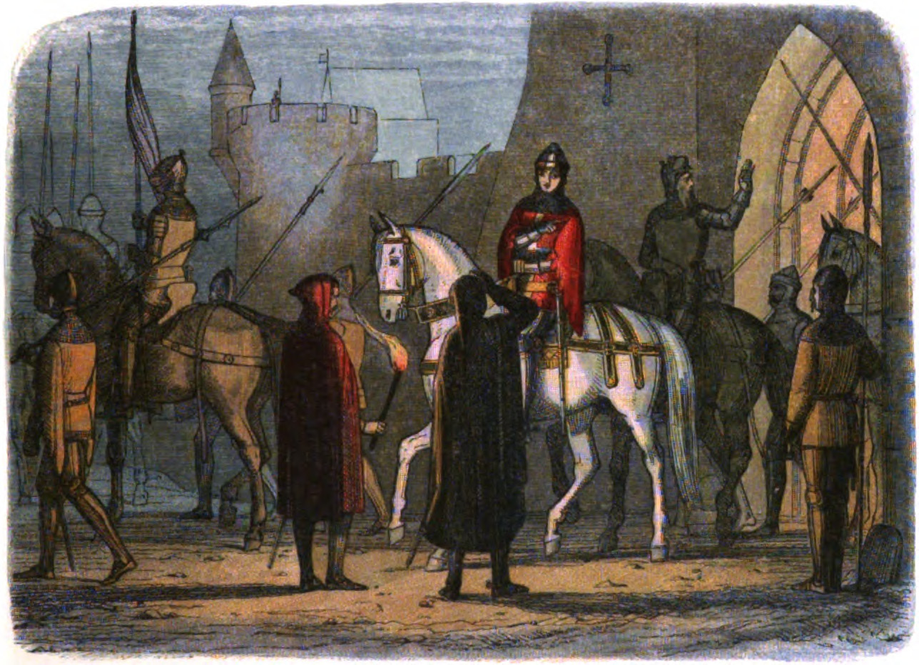 Henry V sets forth to pacify the Lollards in 1414